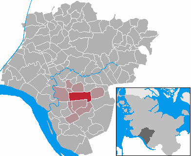 This map shows the area of the municipality Neuenbrook in the Kreis (district) Steinburg, Schleswig-Holstein, Germany.